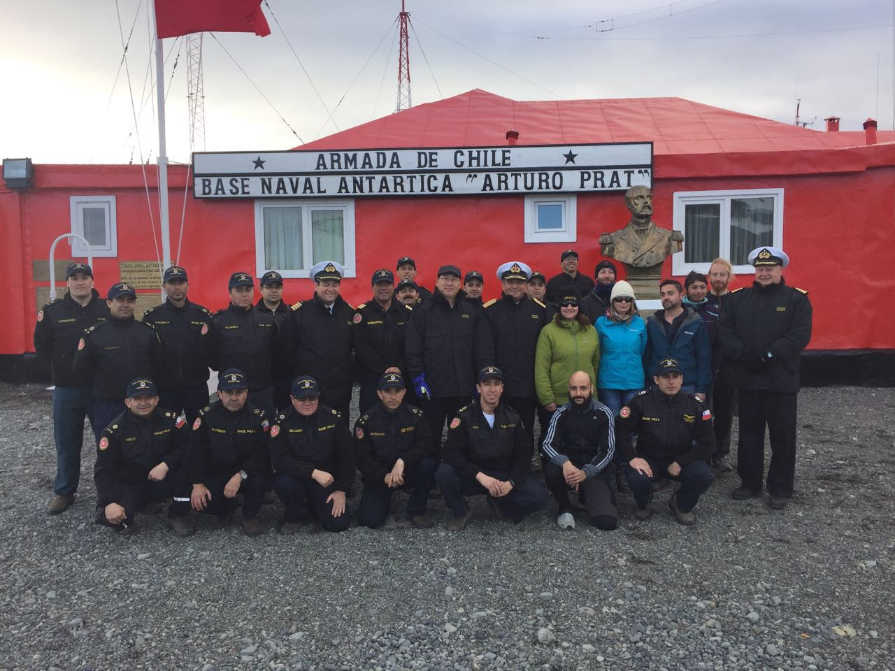 IMO Secretary-General Kitack Lim experienced polar conditions at first hand during a recent visit to Antarctica (8-12 February 2017). Shipping in waters surrounding the two poles has increased in recent years. IMO’s Polar Code entered into force on 1 January 2017, bringing in additional safety and environmental provisions for ships operating in these harsh, remote and unique conditions. Secretary-General Lim was hosted by the Chilean Navy during his journey to King George Island in Antarctica. In Punta Arenas, the southern tip of Chile, he met with stakeholders from various maritime organizations. They discussed the relevance of the Polar Code to ships operating in the polar regions and the need to promote safe and sustainable shipping. The Polar Code aims to protect the lives of crews and passengers and minimise the impact of shipping operations on the pristine polar regions.